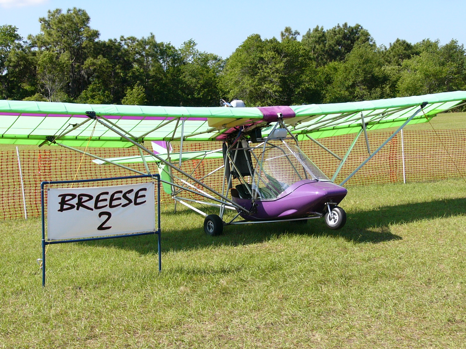 An M-Squared Breese 2 at Sun 'n Fun 2004